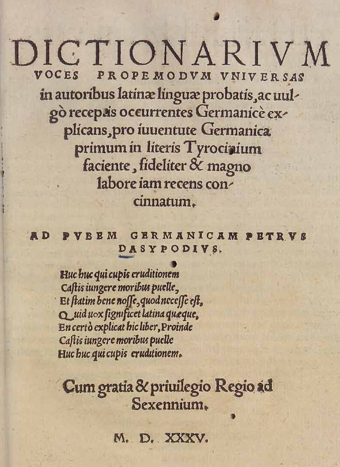 Title page of Dictionarium Latinogermanicum (1535) by Petrus Dasypodius